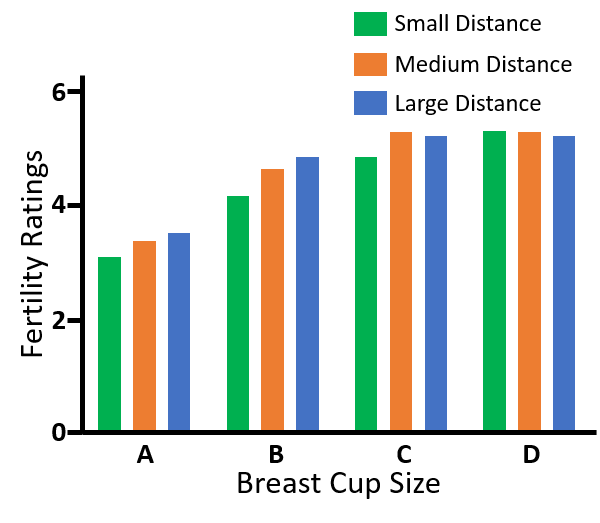 Fertility ratings as a function of breast size and intermammary cleft distance, from Effects of Breast Size, Intermammary Cleft Distance (Cleavage) and Ptosis on Perceived Attractiveness, Health, Fertility and Age by Farid Pazhoohi, Ray Garza & Alan Kingstone